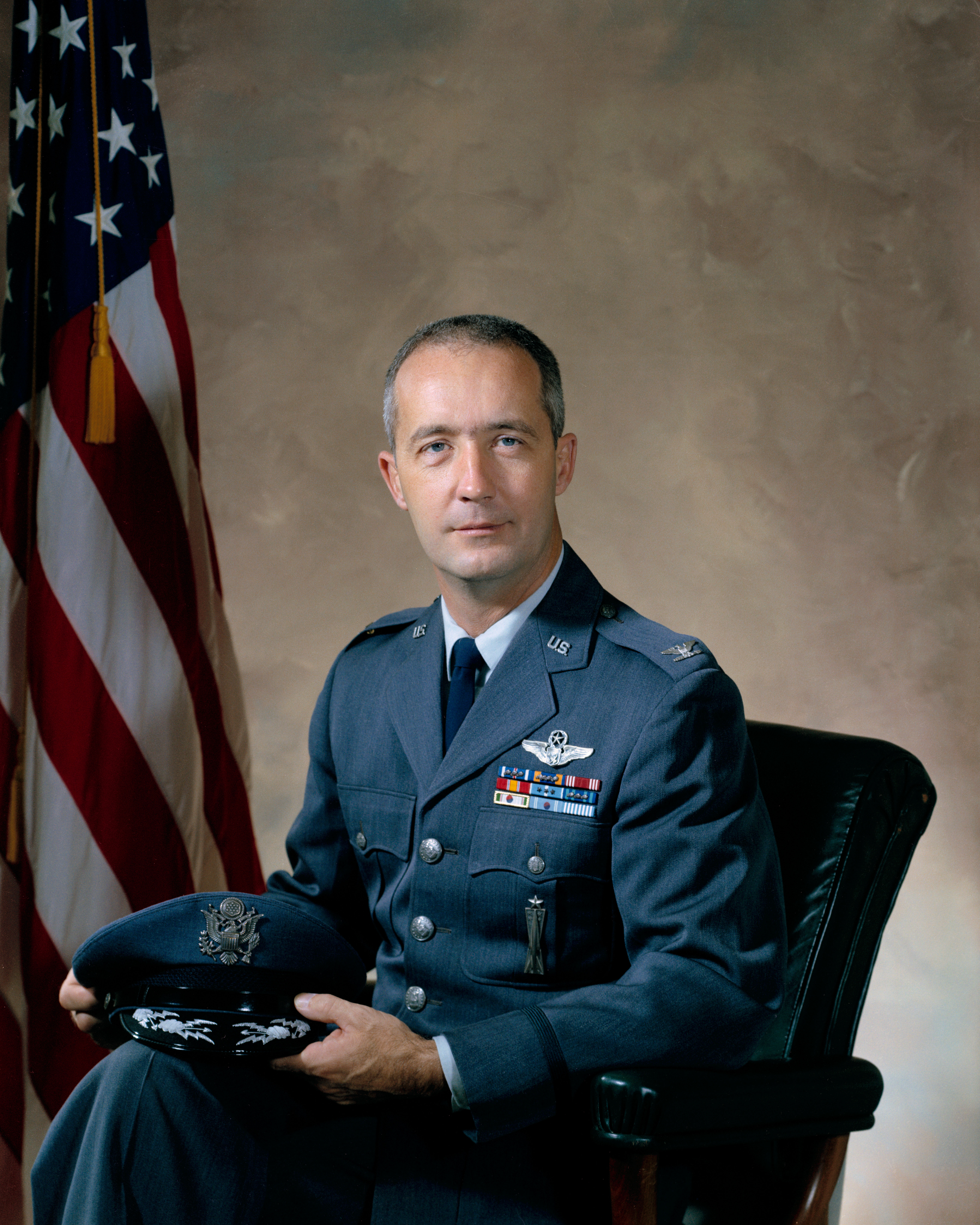 Portrait of astronaut James A. McDivitt, in his Air Force uniform with rank insignia showing he is Air Force Colonel. Editor's Note: Since the photo was made, James A. McDivitt retired as Brigadier General from the United States Air Force, and left NASA in June of 1972.